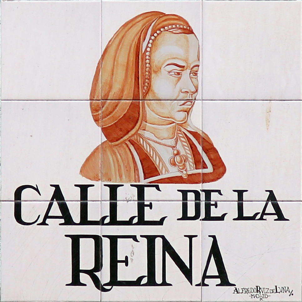 Sign of Calle de la Reina (street) in Madrid (Spain).